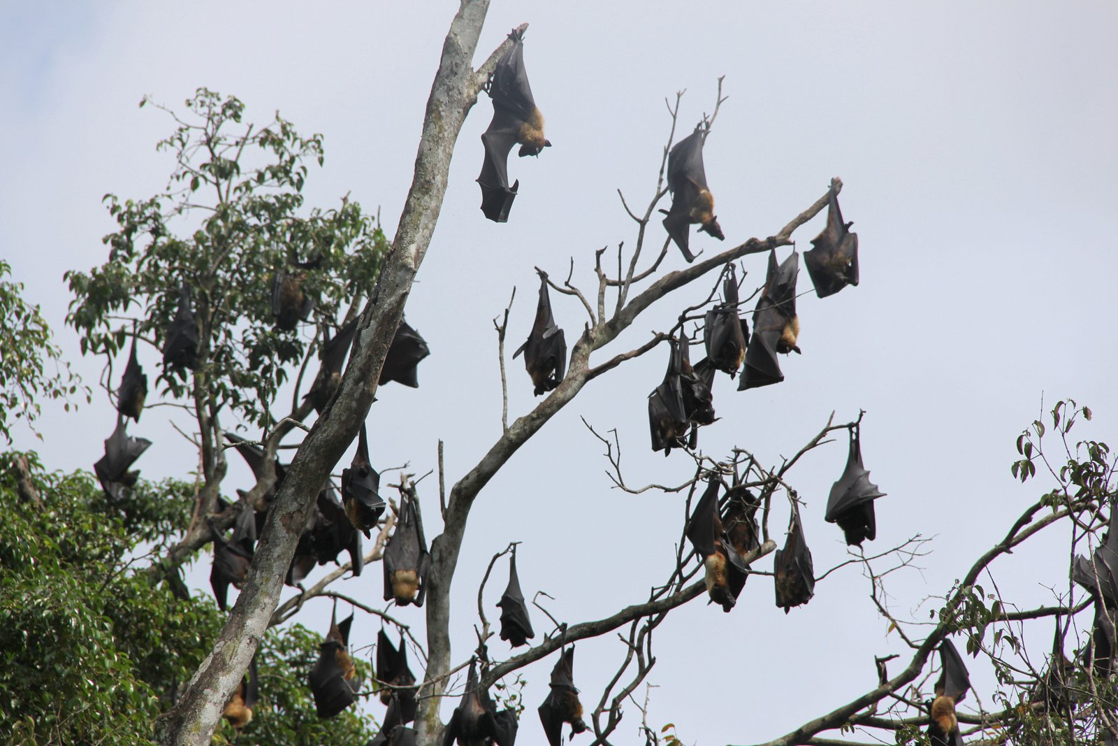 Group flying dogs hanging in tree Sri Lanka